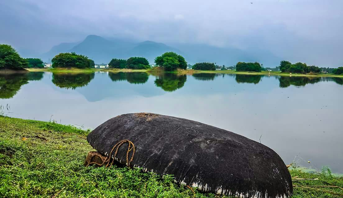 Beautiful view of mookeneri lake